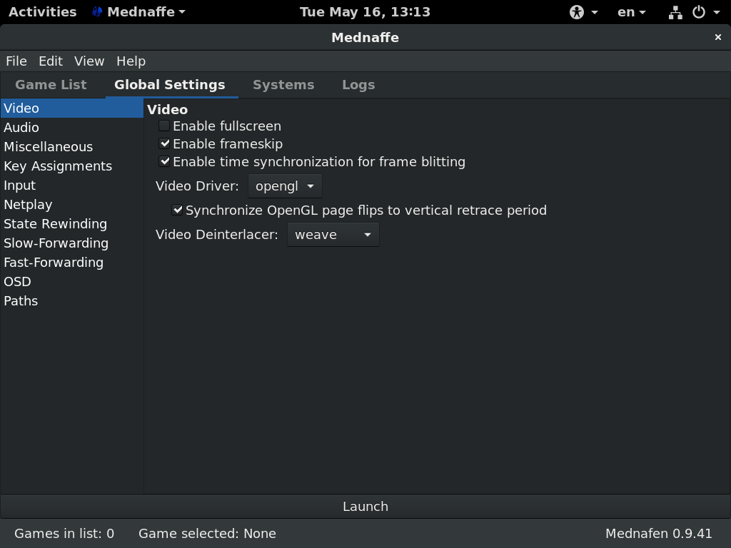 Mednaffe is a free GUI front-end for Mednafen